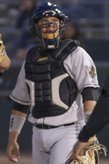 The Wisconsin Timber Rattlers make a pitching change during a 2008 game at Cooley Law School Stadium in Lansing, Michigan